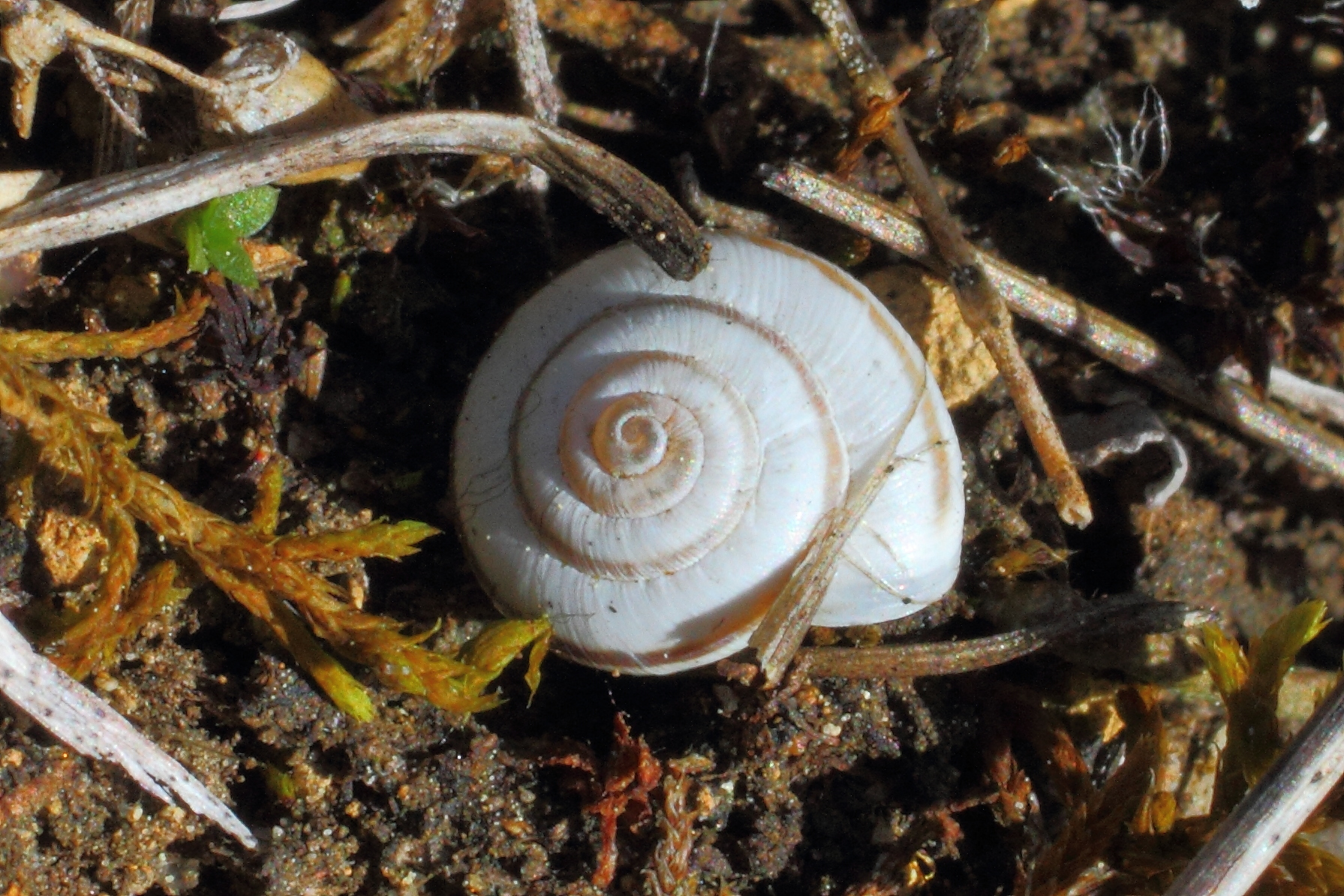 Candidula unifasciata in dry grassland on volcanic mount Hohentwiel, Germany